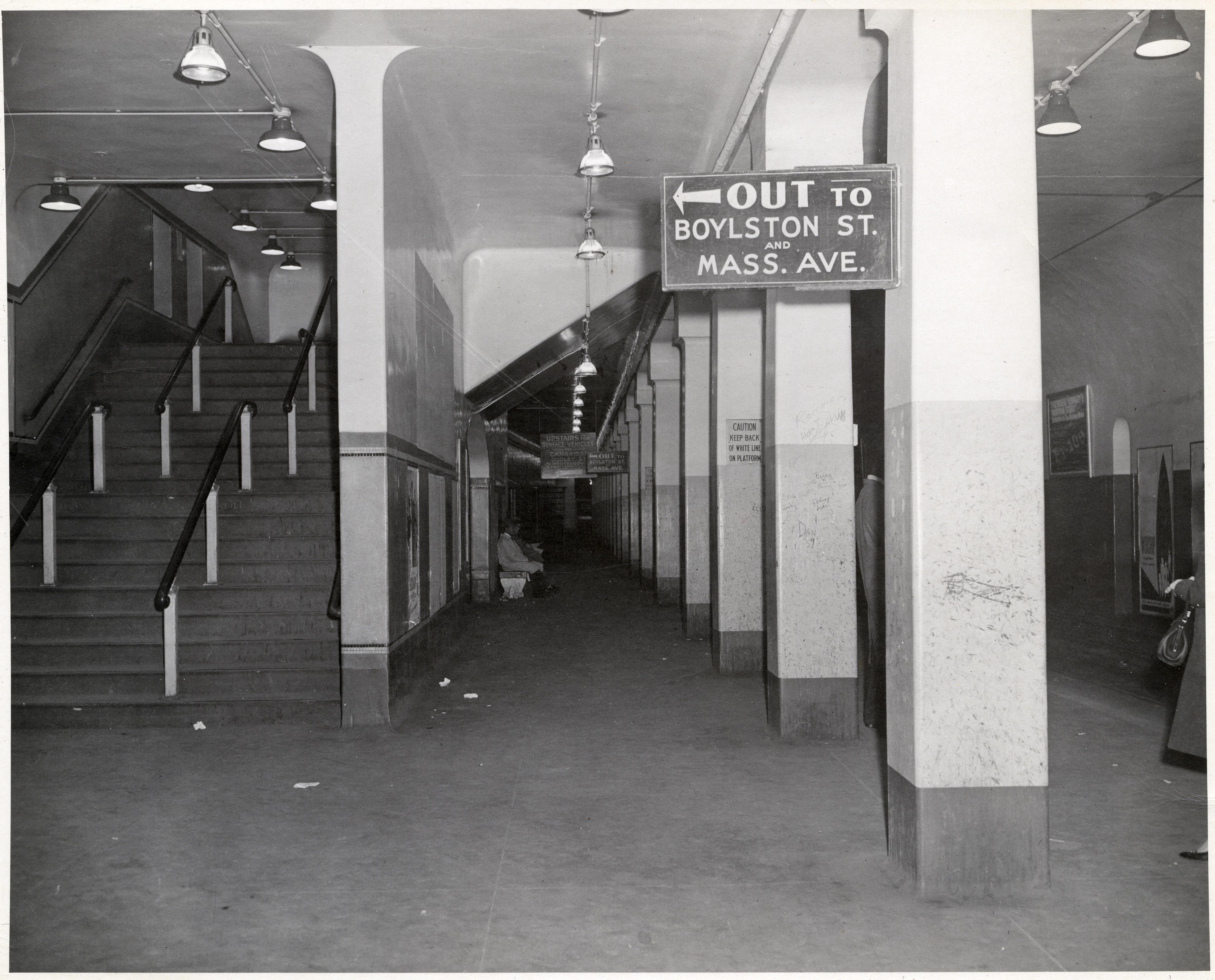 Massachusetts station in January 1962. This is the outbound platform looking southeast; the high turnstile in the background is the exit to the surface station which was just a year from closing.